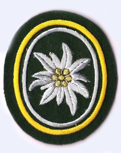 Mountain-Tank Brigade 24